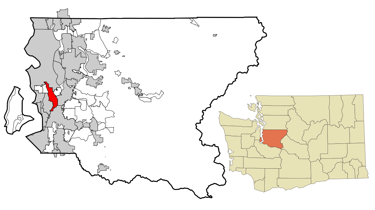 Tukwila highlighted